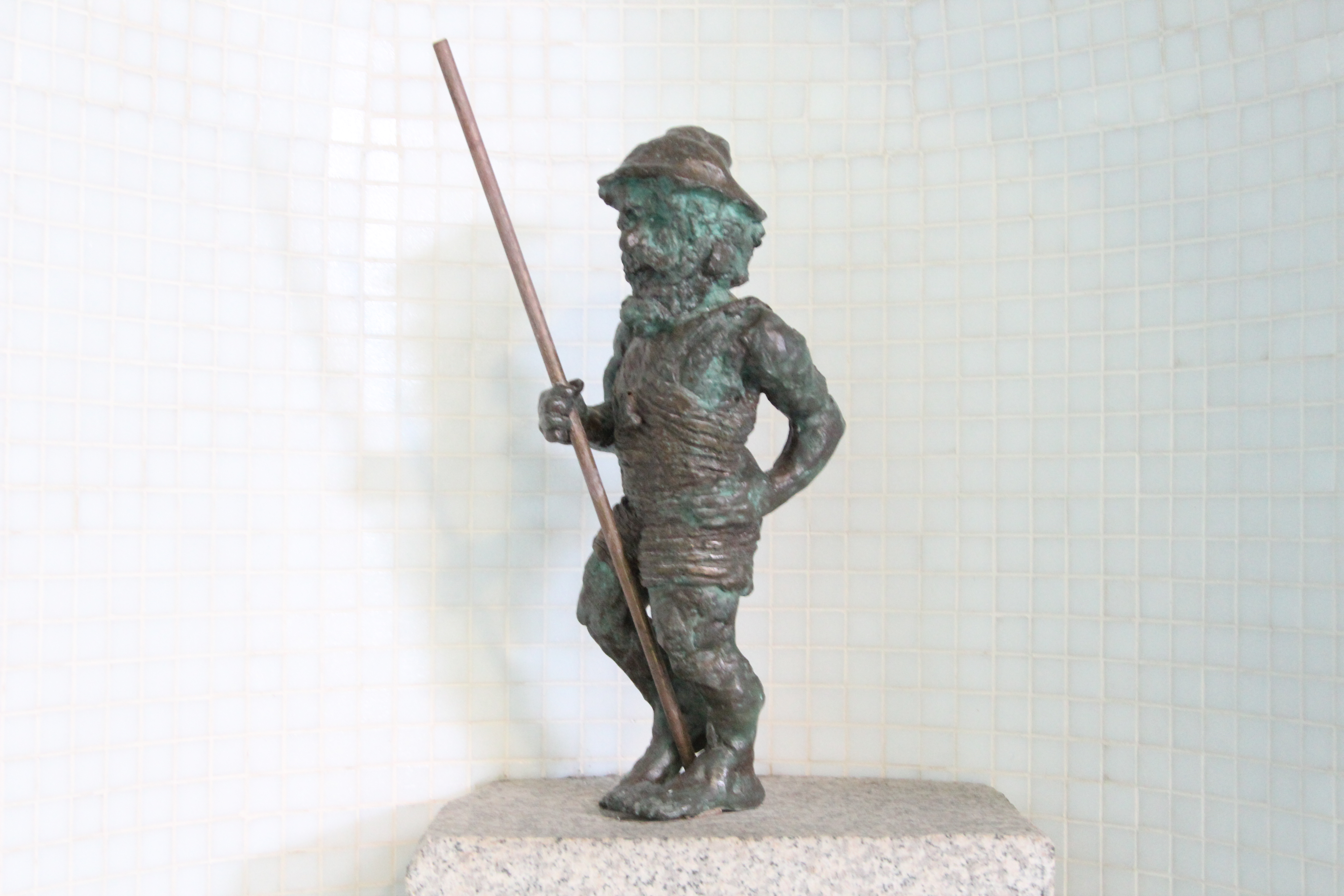 Rescuer (Ratuś) dwarf from Spa Centre on Teatralna 10/12